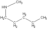 Secondary amine